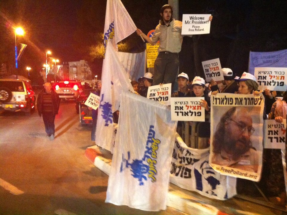 My Israel - a protest by My Israel to free Jonatan Pollard